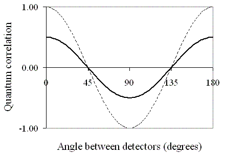 Local realist prediction for quantum correlation in optical Bell test experiments, assuming Malus' Law. Diagram by Caroline H Thompson